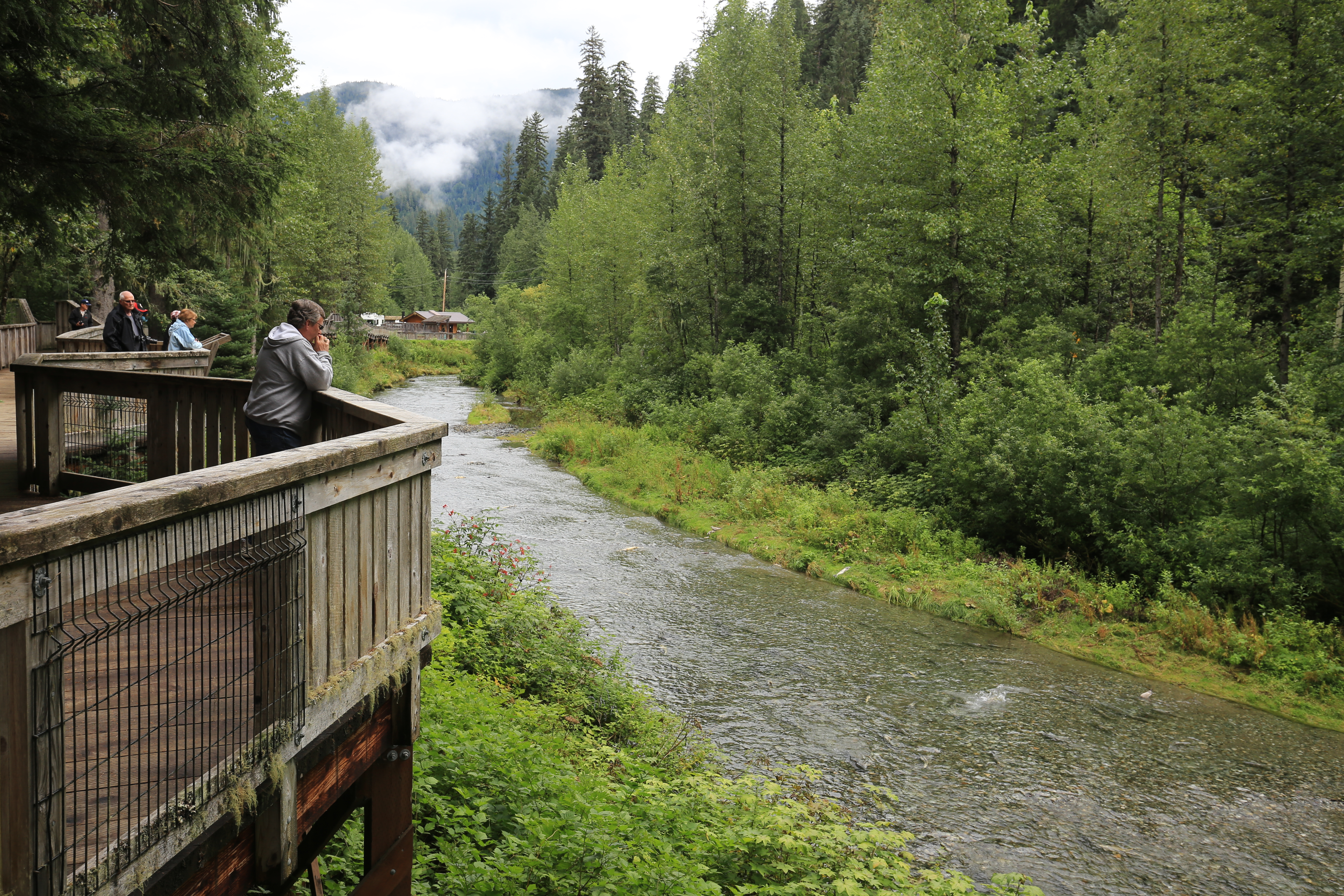 Fish Creek during the Salmon run